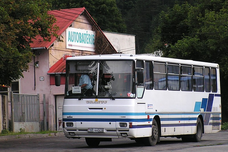 Granus H10-11 bus (Autosan H10-11 bus mounted in Slovakia) in Trenčín, Slovakia. Veolia Transport Nitra operator.